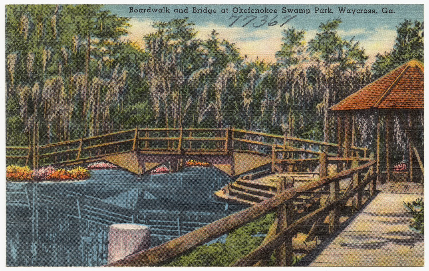 File name: 06_10_013323 Title: Boardwalk and bridge at Okefenokee Swamp Park, Waycross, Ga. Date issued: 1930 - 1945 (approximate) Physical description: 1 print (postcard) : linen texture, color ; 3 1/2 x 5 1/2 in. Genre: Postcards Subject: Parks Notes: Title from item. Collection: The Tichnor Brothers Collection Location: Boston Public Library, Print Department Rights: No known restrictions